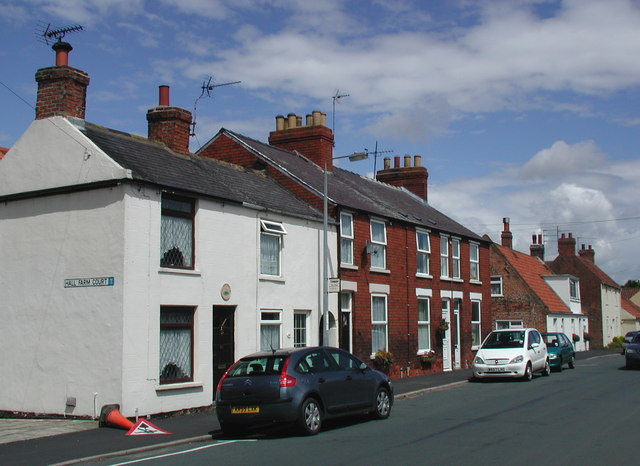 Main Street, Tickton, East Riding of Yorkshire, England.Looking northeast from the Parish Hall along Tickton Main Street.